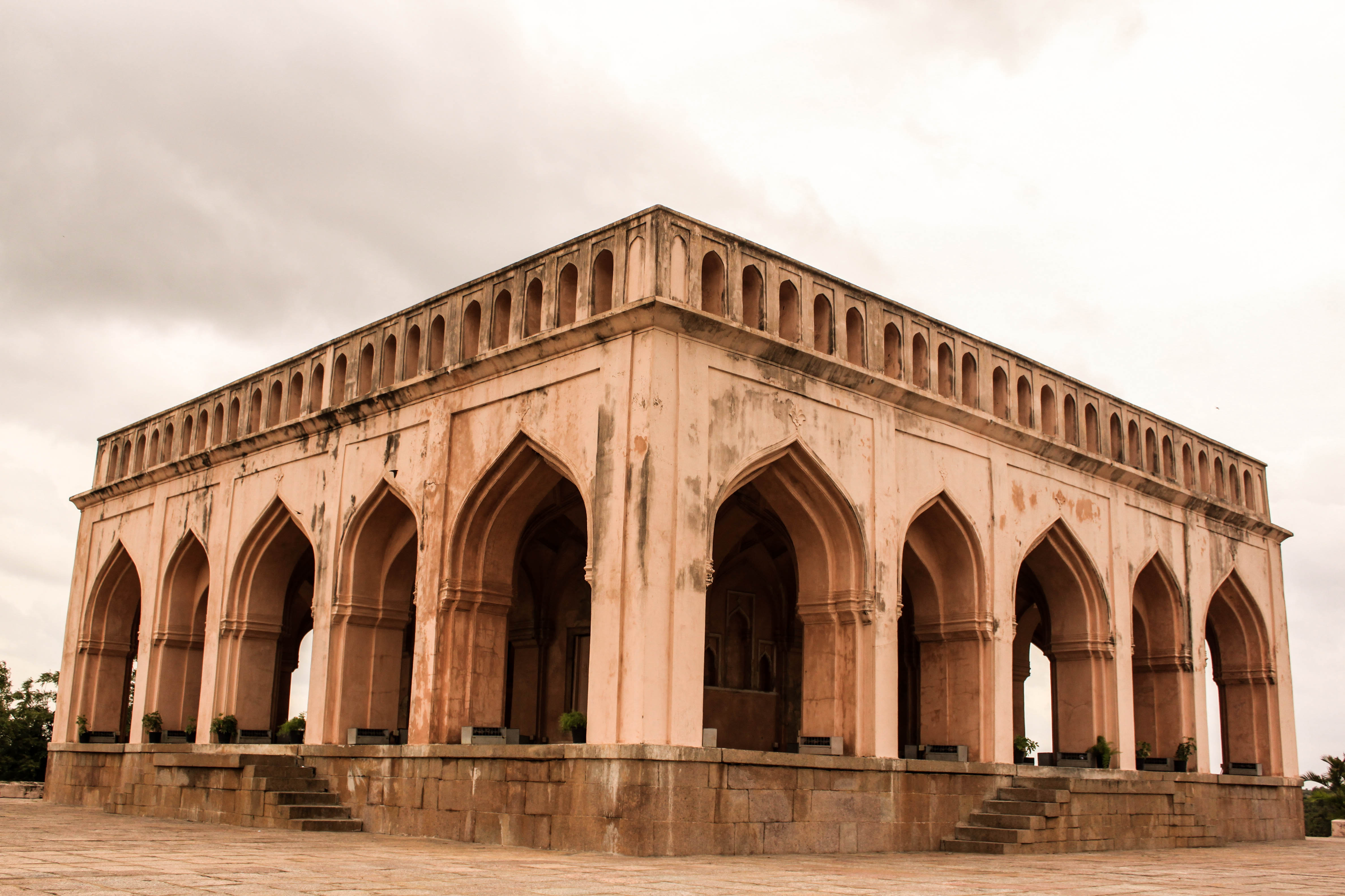 Tara Mati’s Baradari